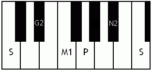 Musical notes of the pentatonic ragam Suddha Dhanyasi of Carnatic music shown in a keyboard layout. See swaras in Carnatic music for details on the notation used. In this image of Suddha Dhanyasi scale, C is used as Shadjam for simplicity sake only. In Carnatic music any note can be the tonic note (sruti), which is taken as Shadjam note. This image is for use in Wikipedia ragam articles and articles related to Carnatic music.